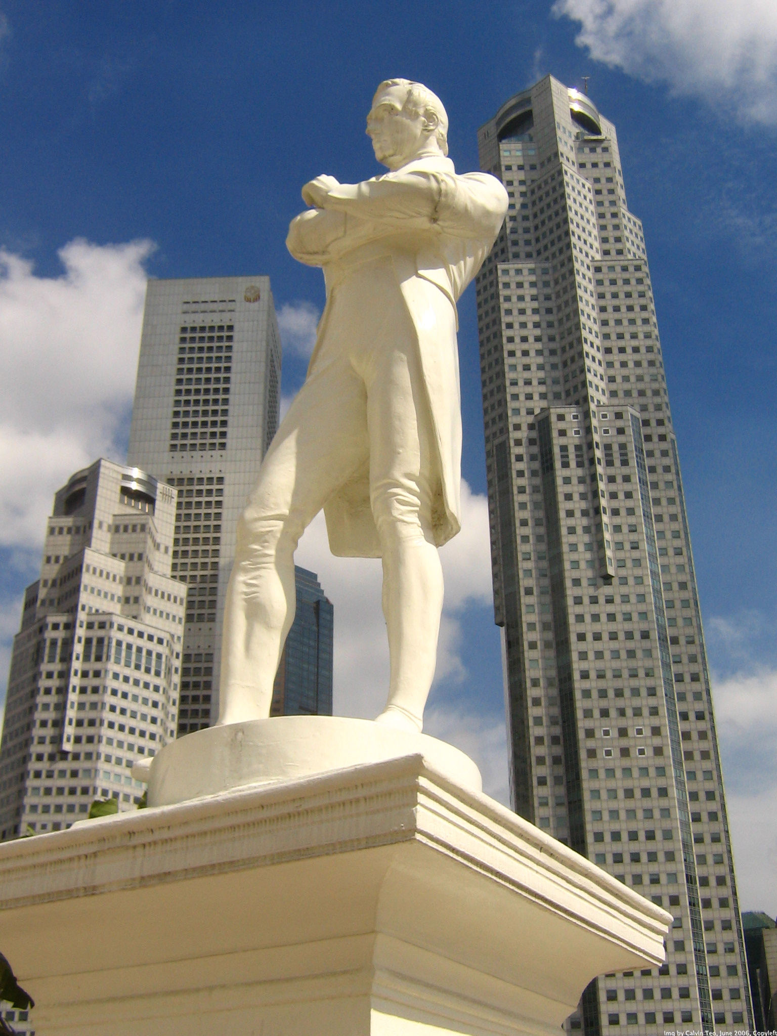 An afternoon view of the statue of Sir Thomas Stamford Raffles ar Raffles Landing Site, Singapore River Img by Calvin Teo, June 2006